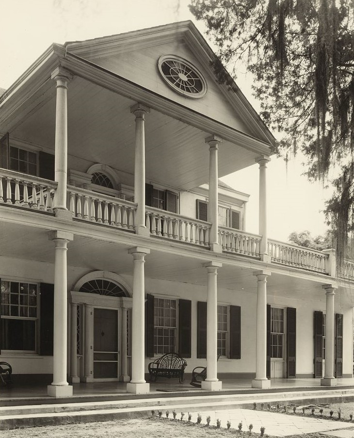 Title Linden, Natchez, Adams County, Mississippi Contributor Names Johnston, Frances Benjamin, 1864-1952, photographer Created / Published 1938. Subject Headings - United States--Mississippi--Adams County--Natchez - Bull's eye windows. - Fanlights. - Pediments. - Porticoes (Porches). - Balconies. - Doors & doorways. - Houses. - Mississippi--Adams County--Natchez Format Headings Photographic prints. Notes - Title from photographer's inventory. - Builder is not known but Thomas B. Reed is known as the first occupant. In 1840, Linden was purchased by Mrs. Janr Gustine Connor, great grandmother of present owner. - Building/structure dates: 1785-1790. - Corresponding Carnegie Survey of the Architecture of the South neg. no. 1049. Library has no record of having this neg. - Related names: Mr. A.M. Feltus. - Forms part of: Carnegie Survey of the Architecture of the South (Library of Congress). Medium 1 photographic print. Call Number/Physical Location LOT 12634 [item] [P&P] Repository Library of Congress Prints and Photographs Division Washington, D.C. 20540 USA Digital Id ppmsca 23947 //hdl.loc.gov/loc.pnp/ppmsca.23947 Control Number csas200907161 Reproduction Number LC-DIG-ppmsca-23947 (digital file from print) Rights Advisory No known restrictions on publication. Online Format image Description 1 photographic print.